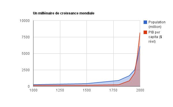 1000 years of growth from 1000 to 2000 Data MIT and United Nation